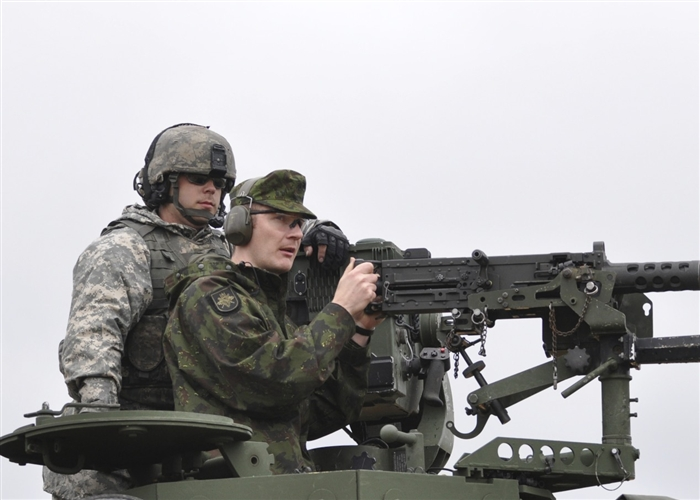 Adazi, Latvia - Pennsylvania National Guard Soldiers participated in a joint live fire exercise with Lithuanian Solidiers. The Soldiers are deployed to Latvia as part of U.S. Army in Europe's multinational security exercise Saber Strike. Lithuania is a state partner with Pennsylvania and these Soldiers join nearly 2,000 others from Latvia, Estonia, Finland, Canada, France and the United Kingdom.